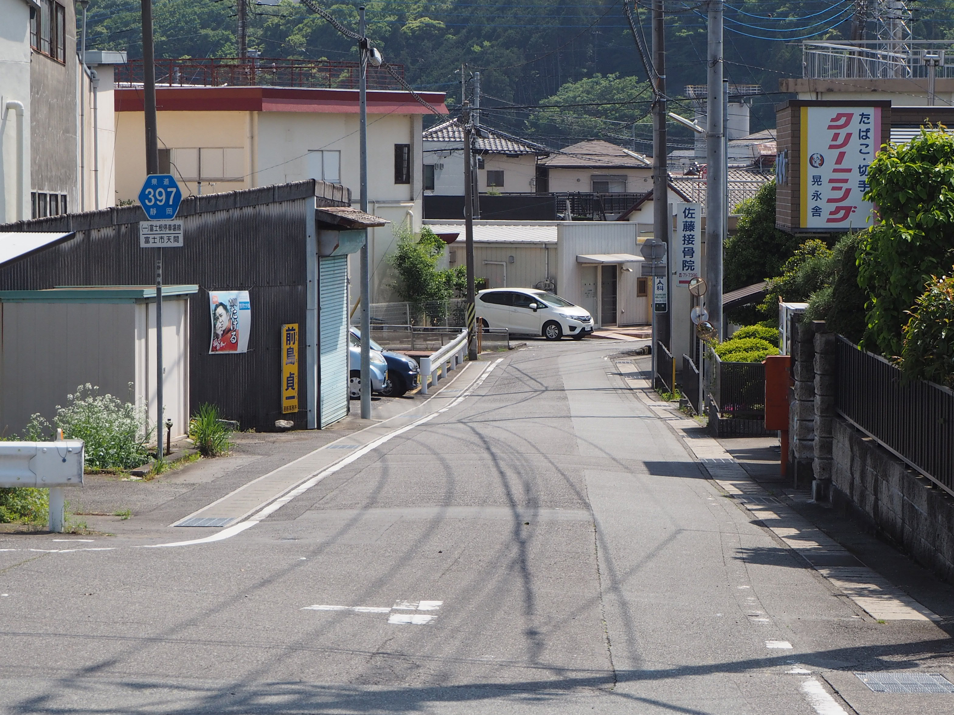 Shizuoka prefectural road Route 397